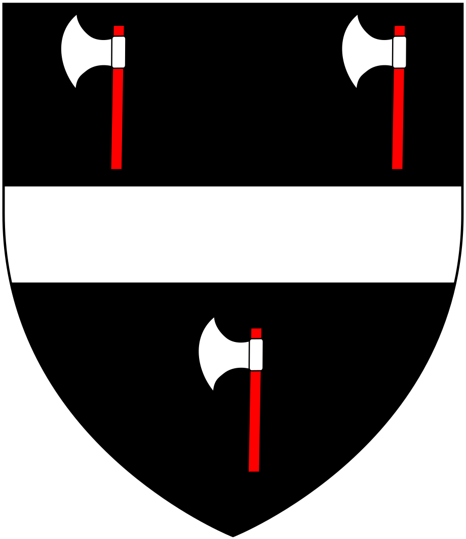 Arms of Wrey of Trebeigh, Cornwall and Tawstock, Devon: Sable, a fesse between three pole-axes argent helved gules (Debtett's Peerage, 1968, p.877, Wrey Baronets)